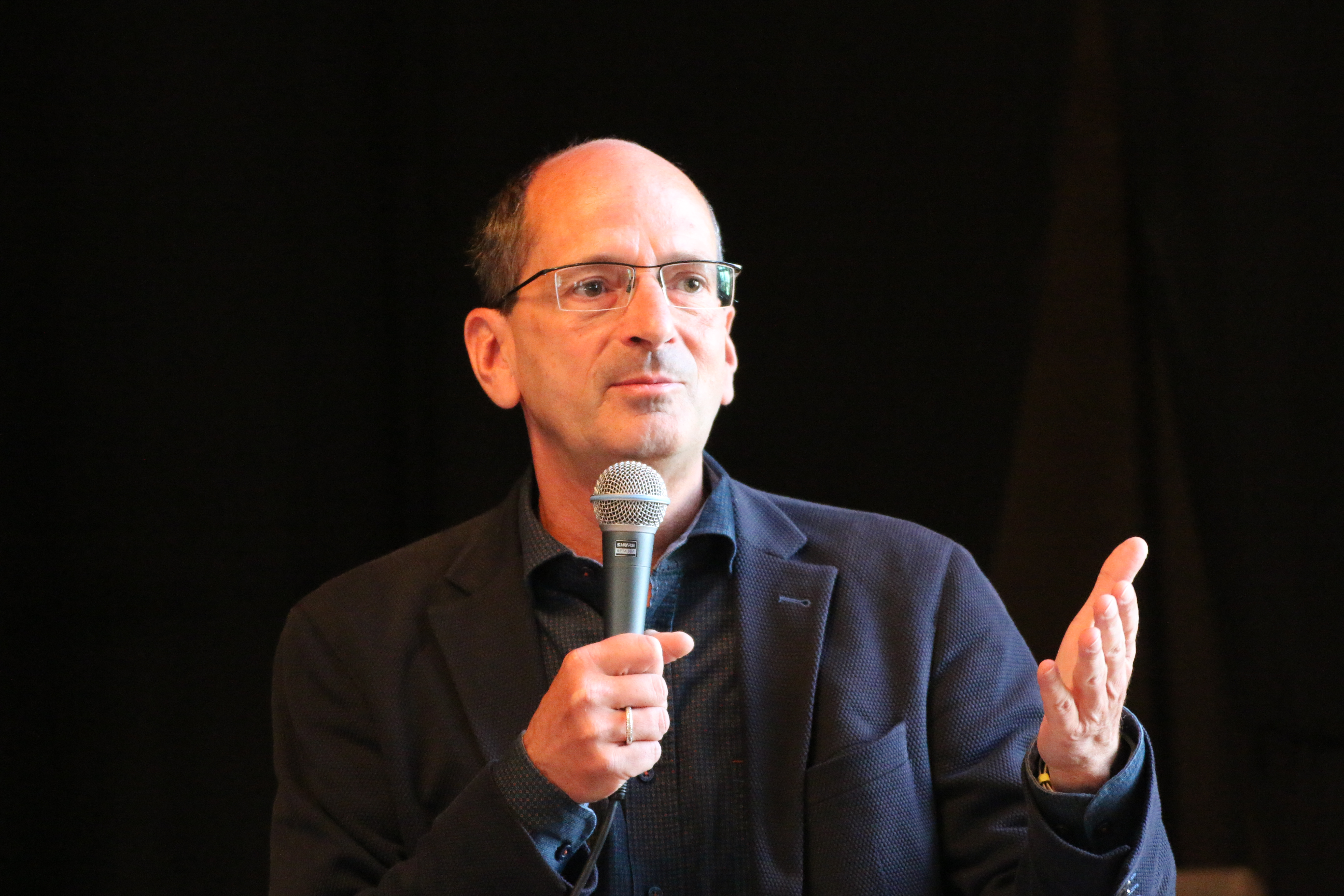 Panel discussion at Max-Beckmann-Schule (highschool) in occasion of the German federal election with leading candidates of the 182. constituency (Frankfurt) from the currently represented federal parliament (Bundestag) parties.